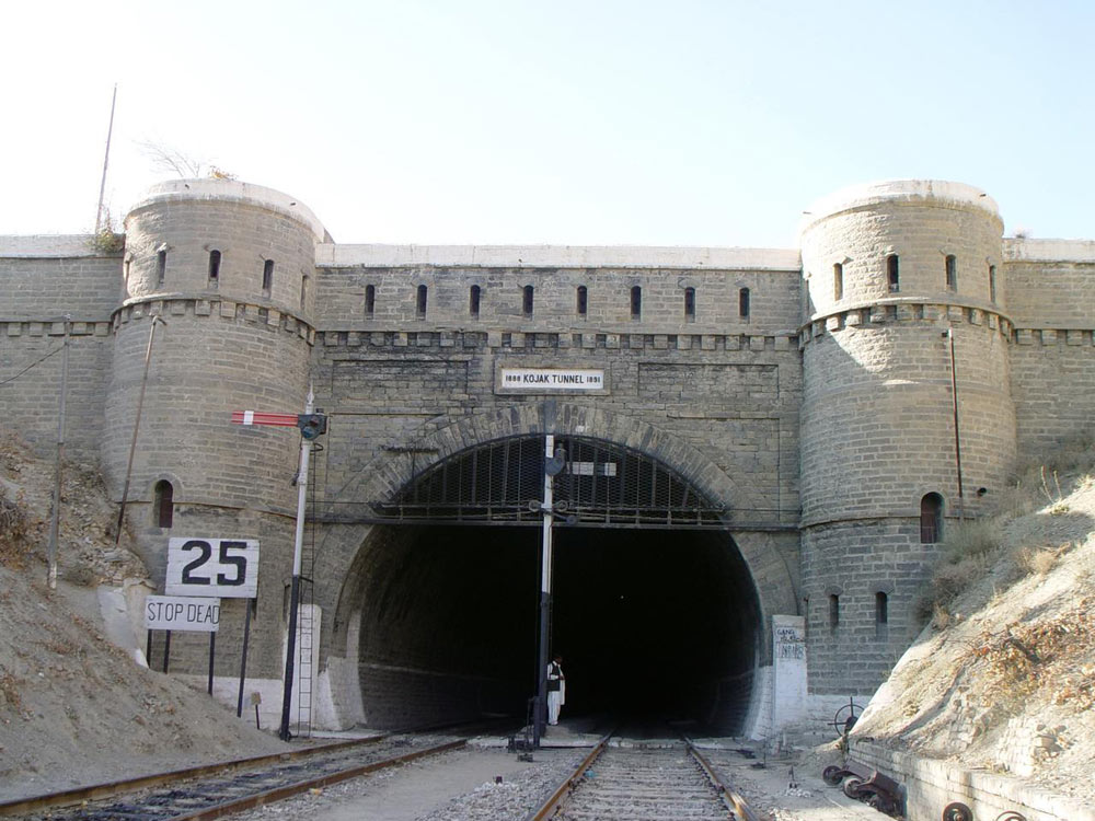 Khojak Tunnel This is a photo of a monument in Pakistan identified as the BA-U-56